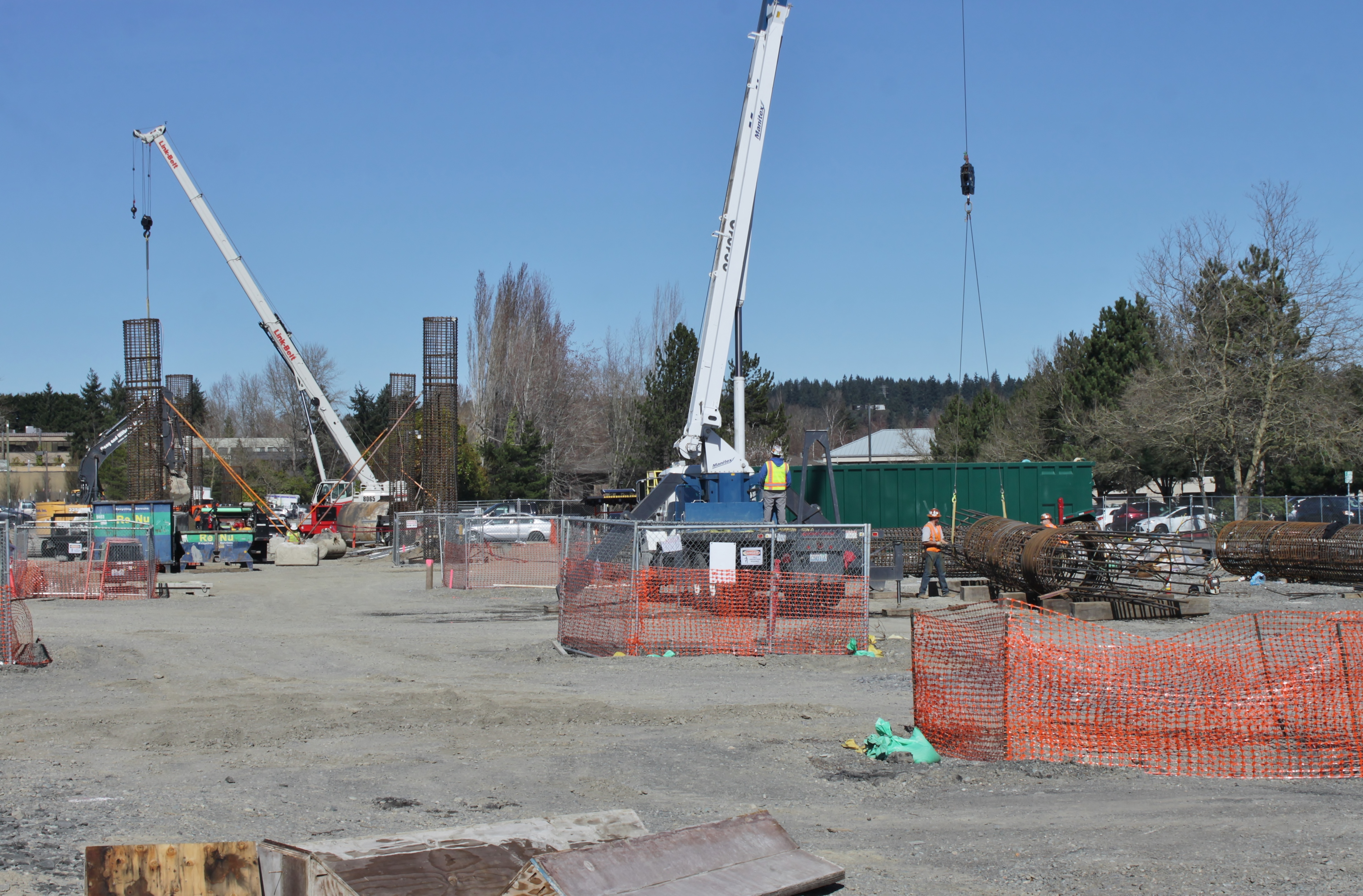 The future Wilburton light rail station in Bellevue, Washington, seen during early construction from NE 8th Street.